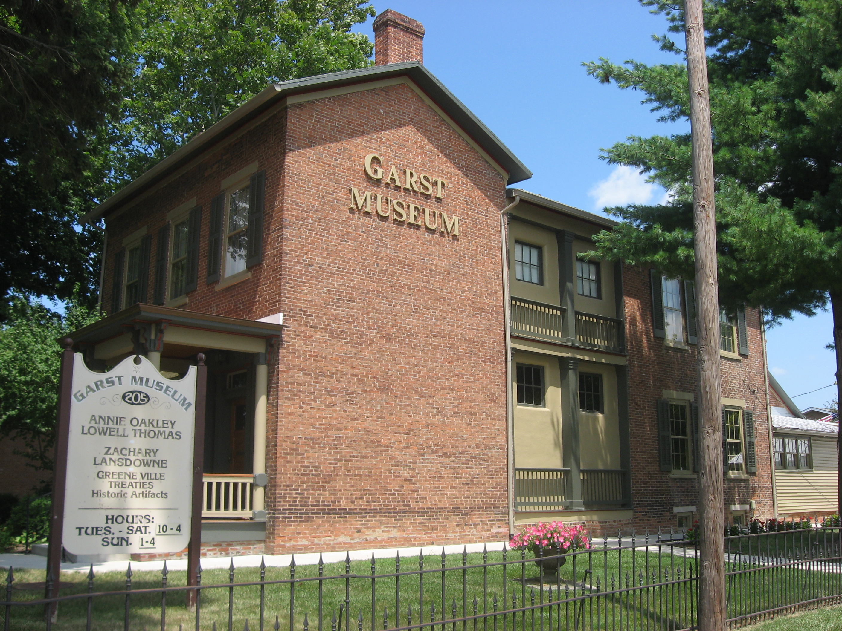 Front and southern side of the Garst Museum, located at 205 N. Broadway (State Route 118) in Greenville, Ohio, United States. Built in 1852, later used as a hotel, and since converted into a museum, it is listed on the National Register of Historic Places.